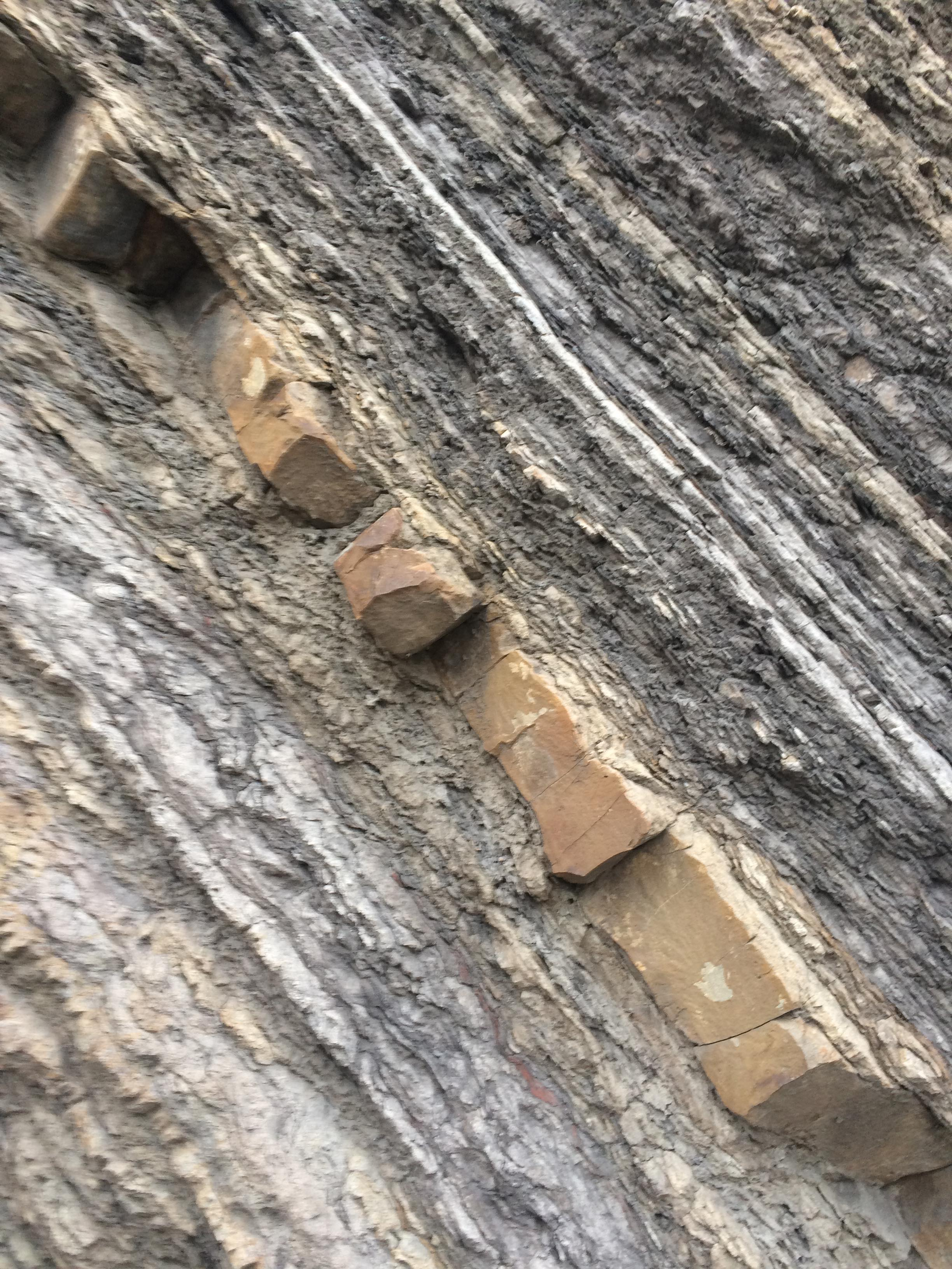 Letenský profil - detail profilu